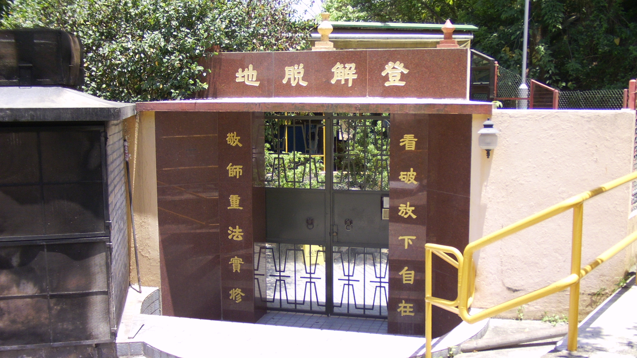 Gate 1 of Wai Chuen Monastery, Shatin, New Territories, Hong Kong